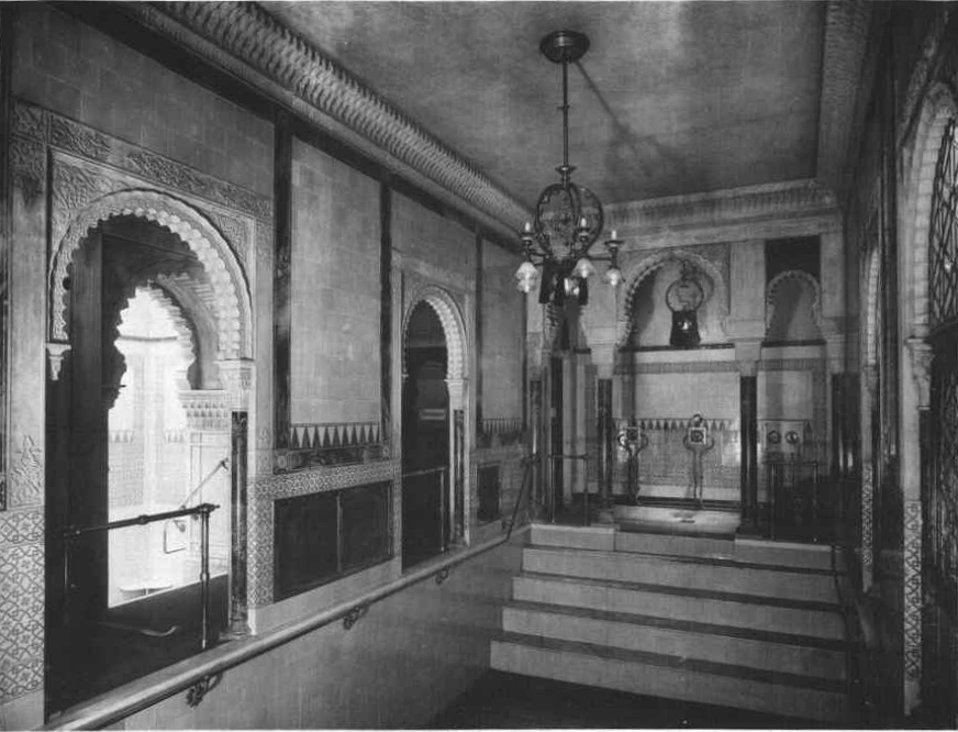 Moorish revival architecture Austria